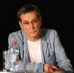 Ucrainian actor Alexei Gorbunov